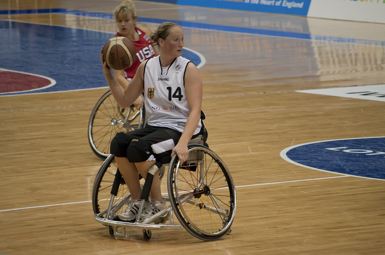 Germany 53, USA 65 Marina Mohnen